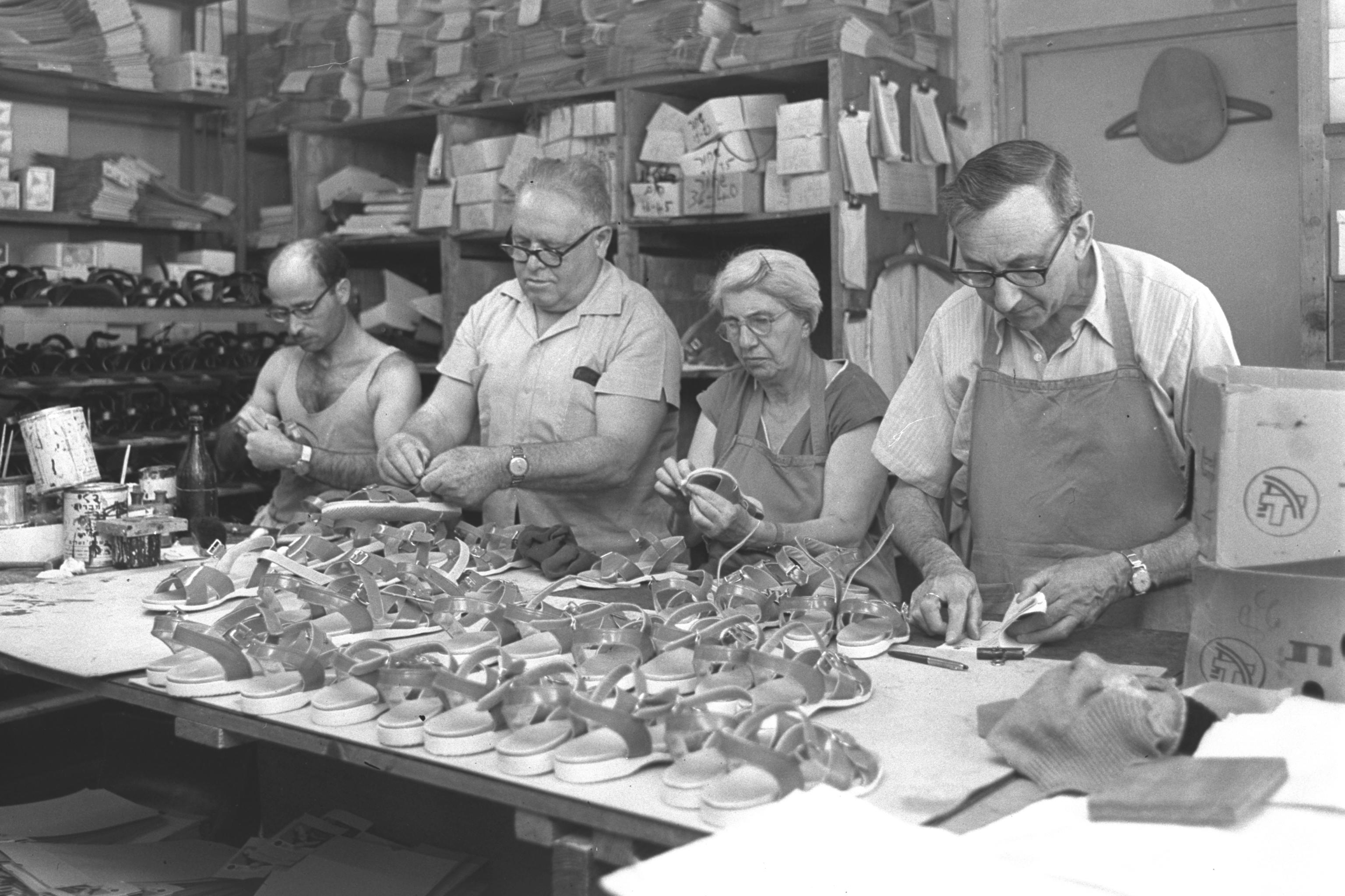 THE SHOE FACTORY OF KIBBUTZ NEOT MORDECHAI EMPLOYING A PART FROM ONE PROFESSIONAL TRADESMAN LOCALLY TRAINED PARANTS OF KIBBUTZ MEMBERS.